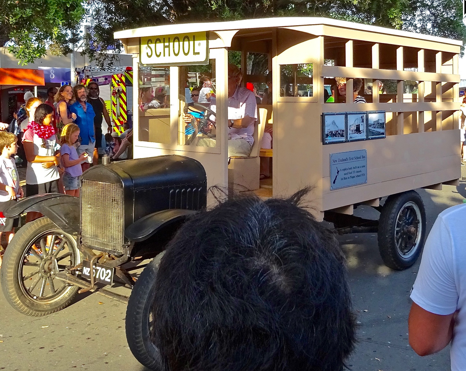 A replica body on a Ford T chassis, though without headlamps